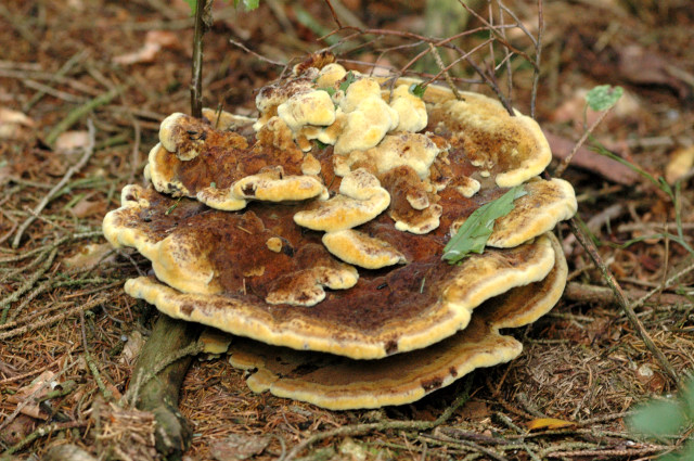 Phaeolus schweinitzii from Commanster, Belgium. The determination of the species shown in this picture has been verified.